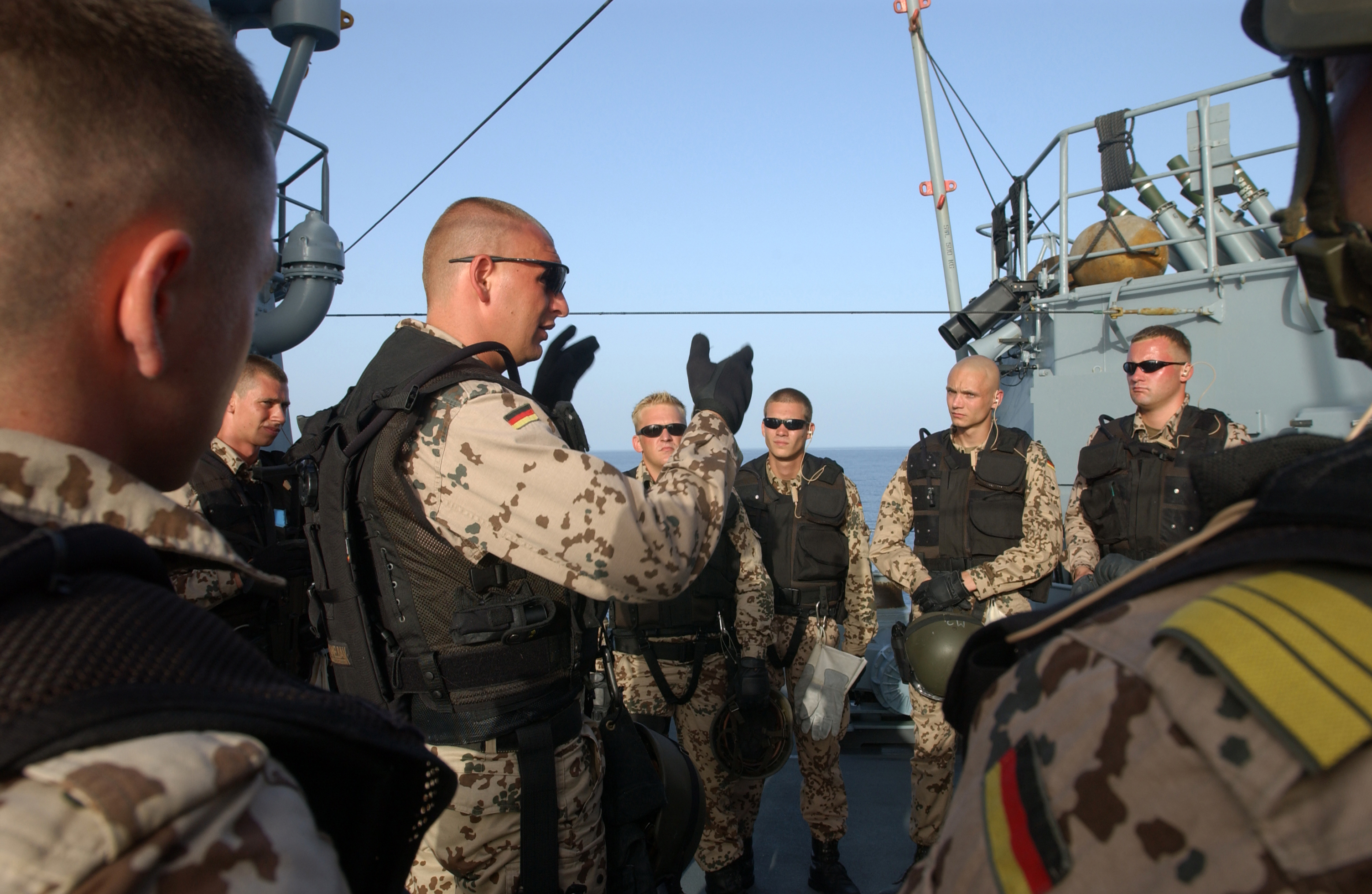 A Team Leader for a boarding team assigned to the German frigate FGS Augsburg (F213) briefs security and recent intelligence regarding the boarding of fishing dhows in the area. The multinational Combined Task Force One Five Zero (CTF-150) was established to monitor, inspect, board, and stop suspect shipping to pursue the war on terrorism and includes operations currently taking place in the North Arabia Sea to support Operation Iraqi Freedom. Countries contributing to CTF-150 currently include Australia, Canada, France, Germany, Italy, Pakistan, New Zealand, Spain, United Kingdom and the United States.